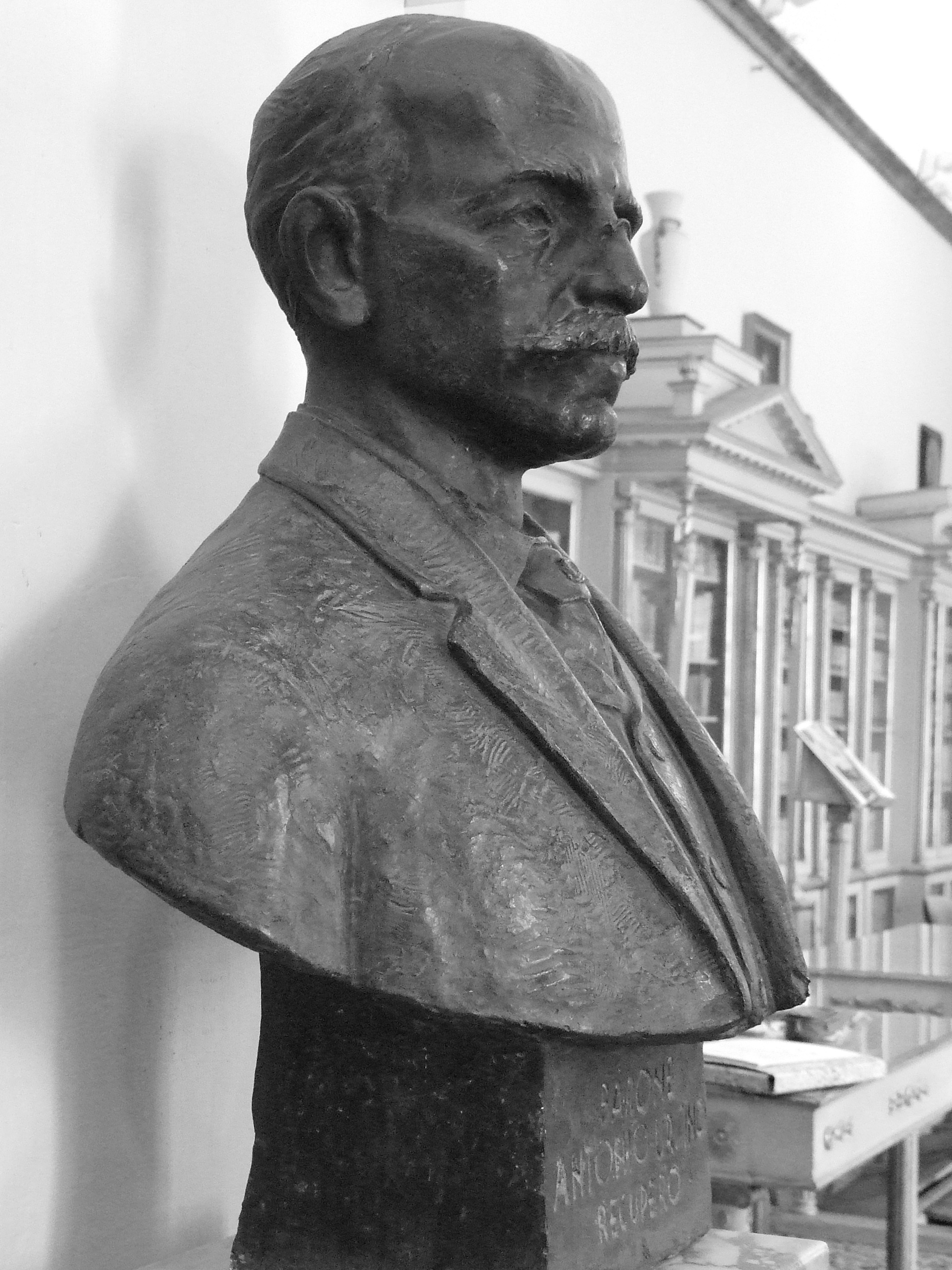 Biblioteche Riunite "Civica e A. Ursino Recupero" - Busto del Barone Antonio Ursino Recupero nella Sala Lettura